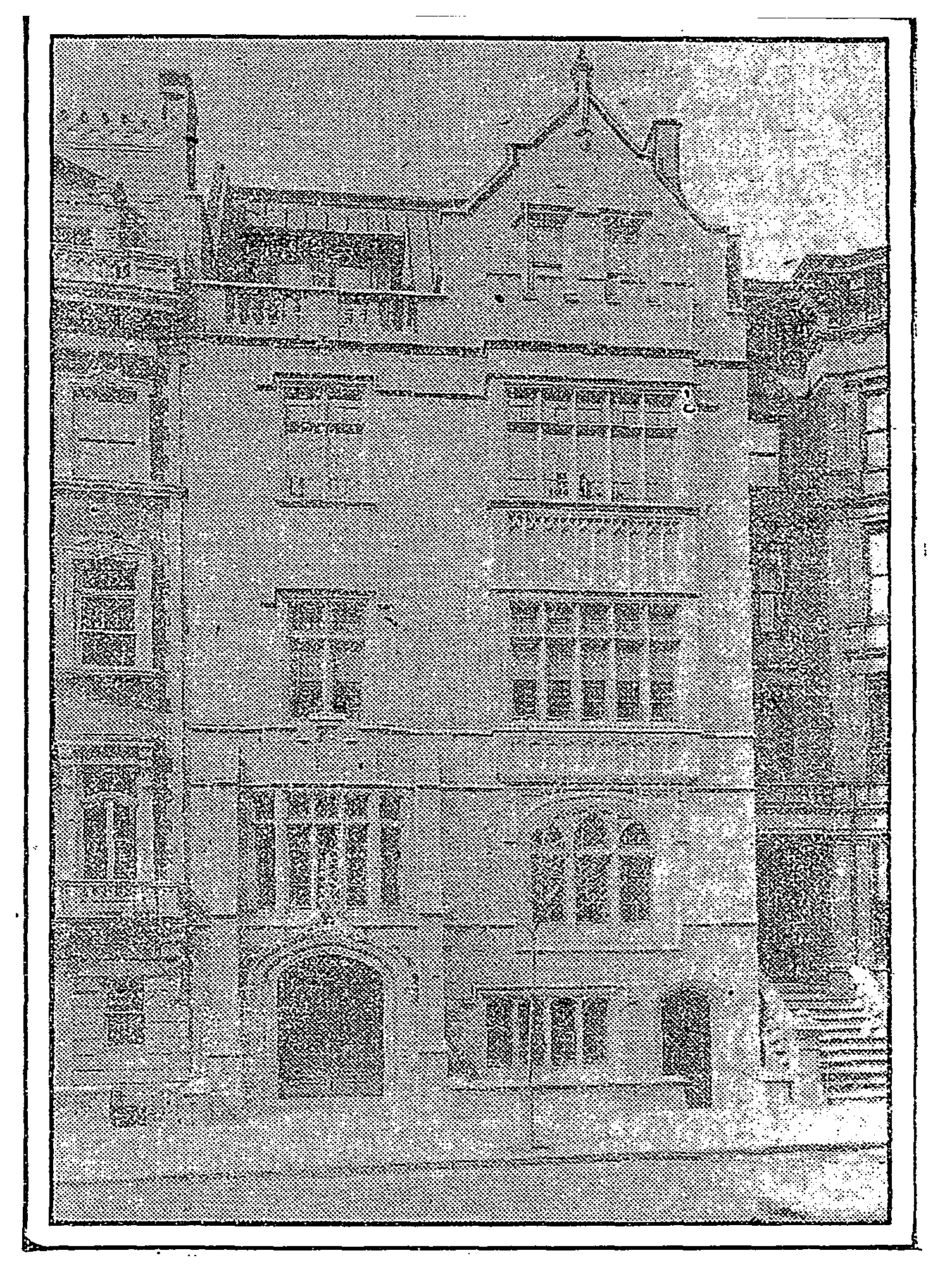 Harvey E. Fisk residence and later William Harkness Residence at 12 East 53rd Street in New York City.